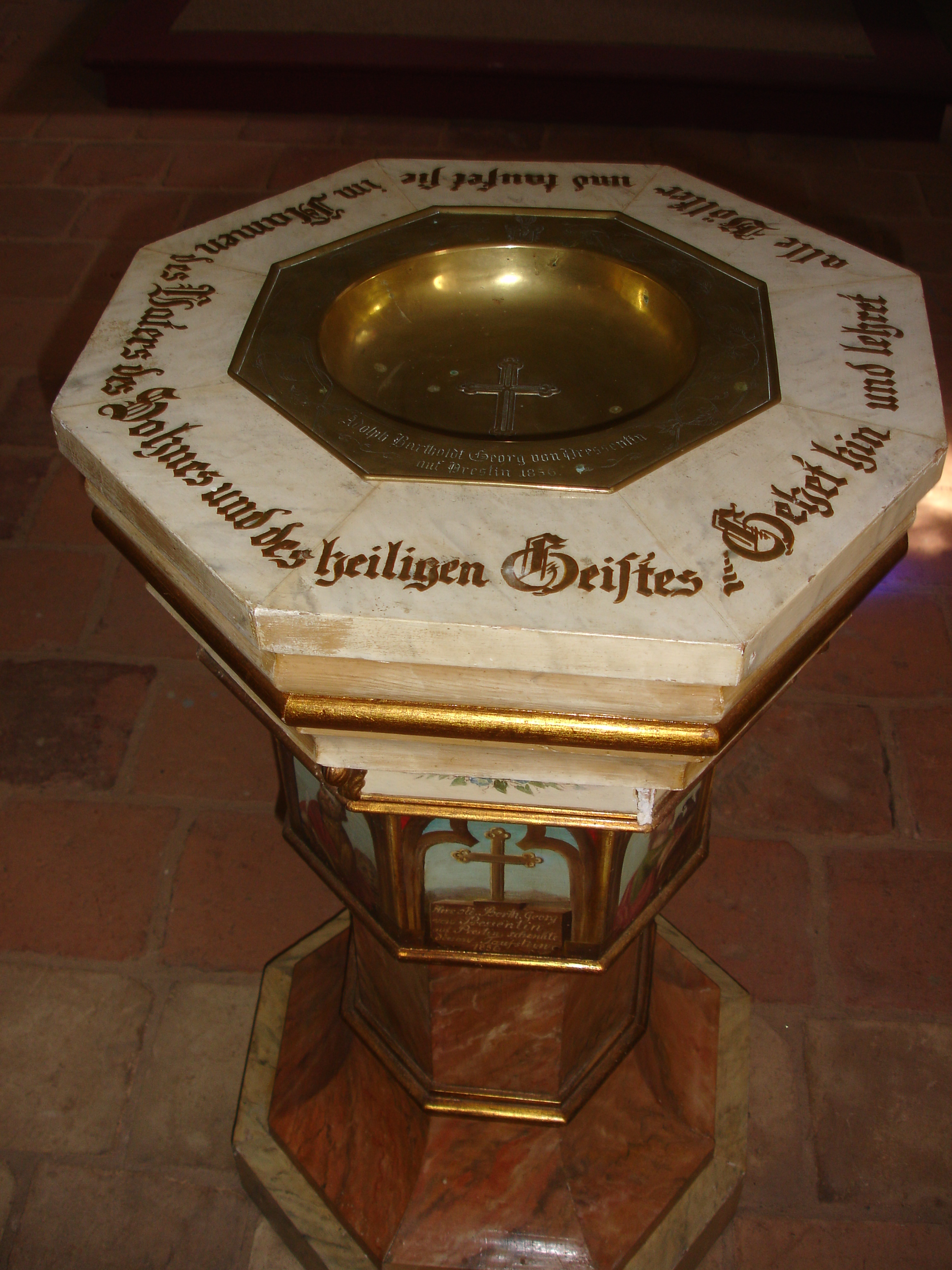 Church in Prestin, district Ludwigslust-Parchim, Mecklenburg-Vorpommern, GermanyBaptsimal font